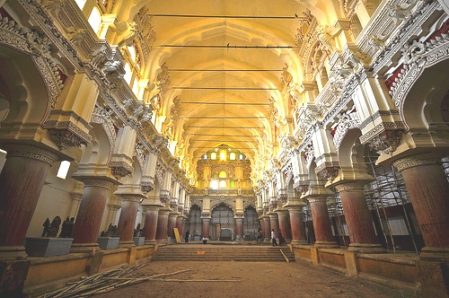 Inner Auditorium/Dance Hall of Tirumalai Nayak Palace, Madurai